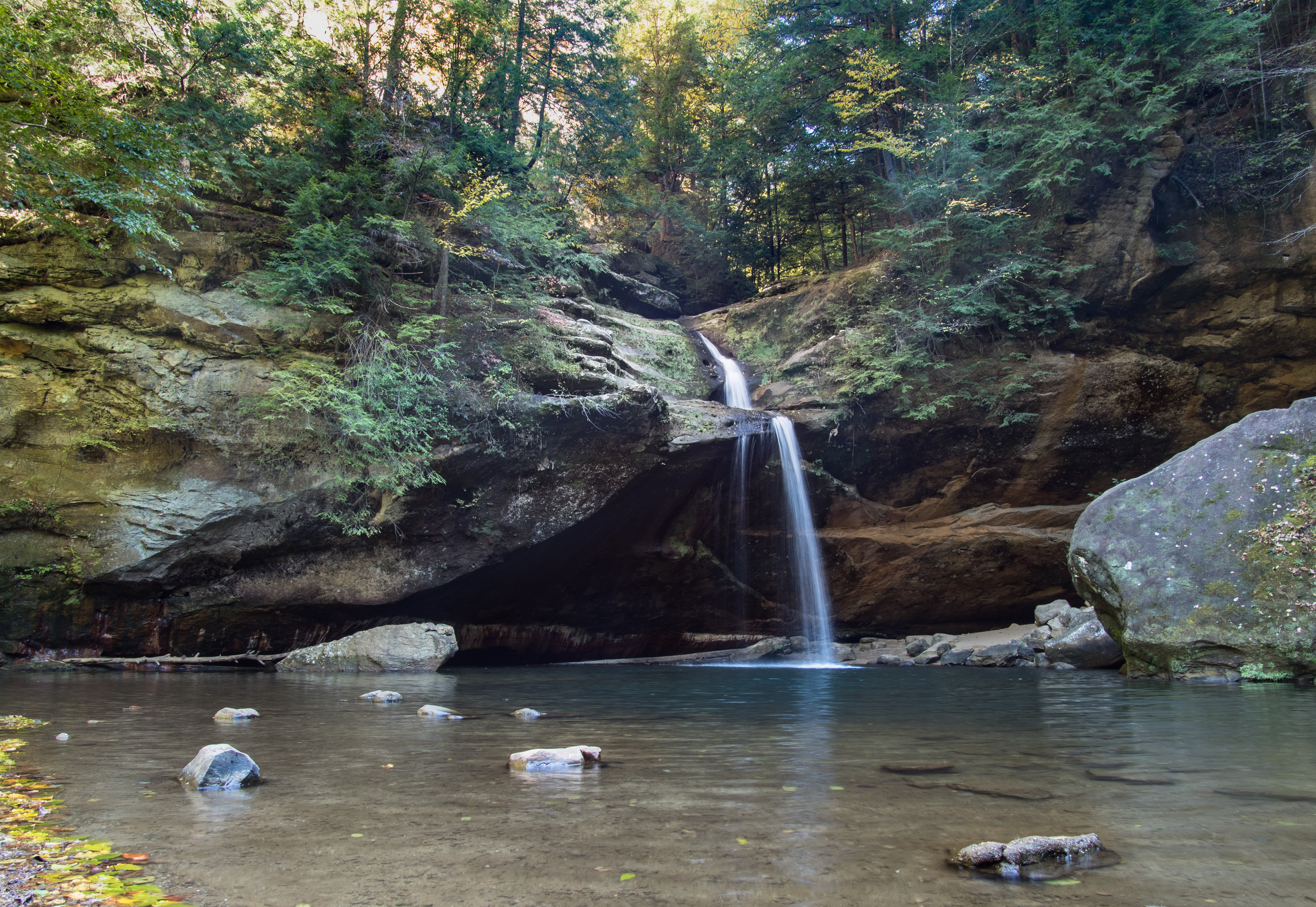 Old Man's Cave area of the Hocking Hills State Park.